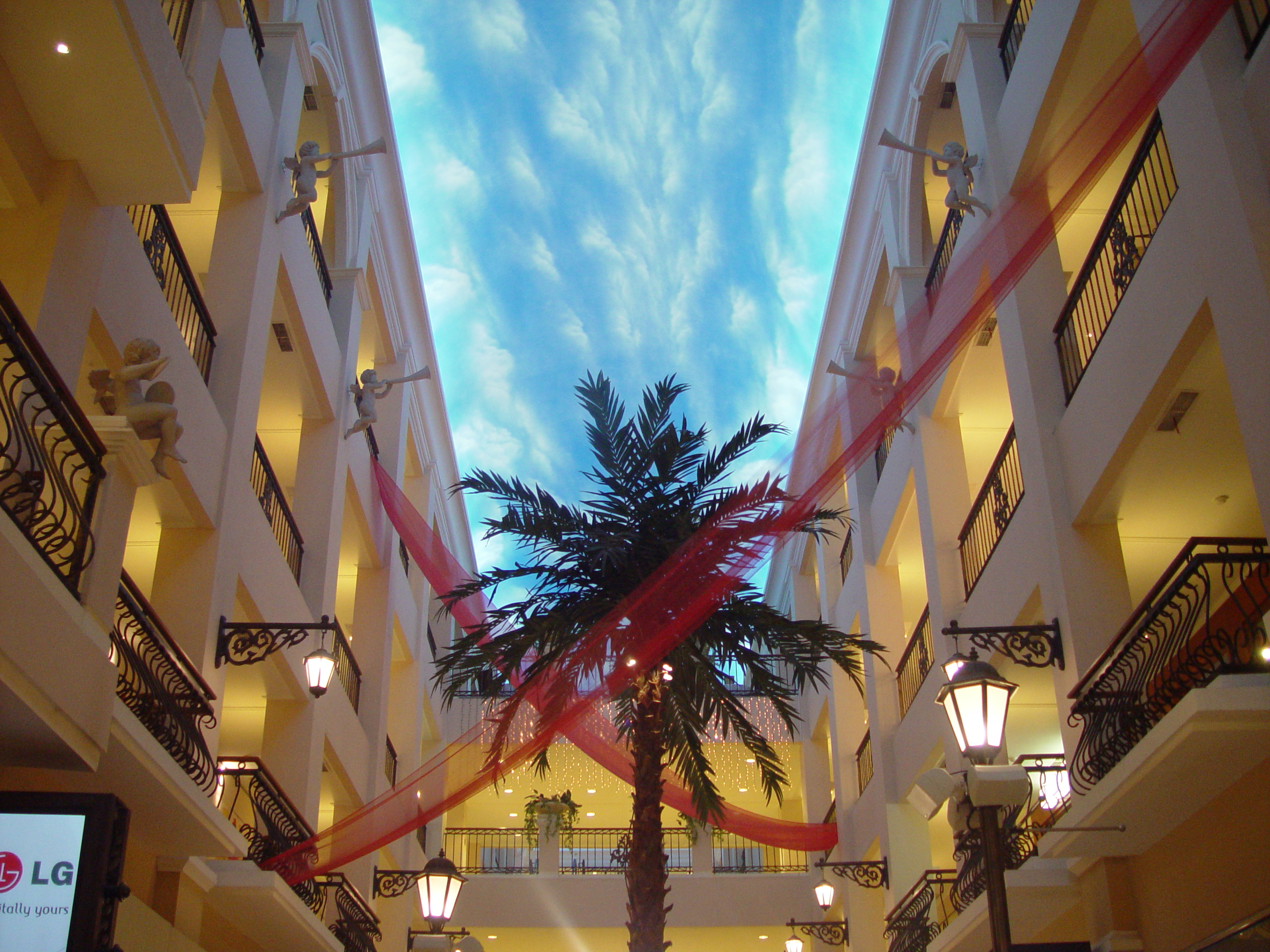 Mall cultural in Jakarta, Indonesia.